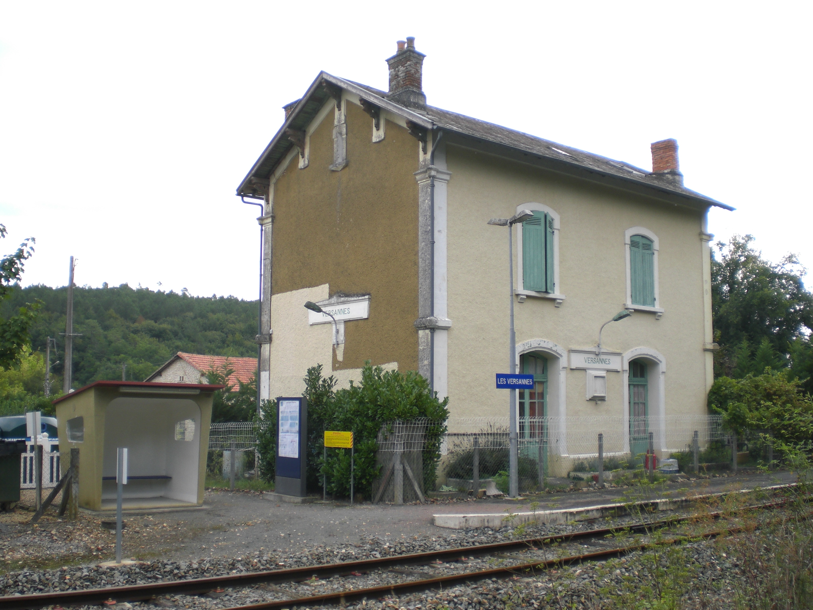 Versannes (Bordeaux) railway station